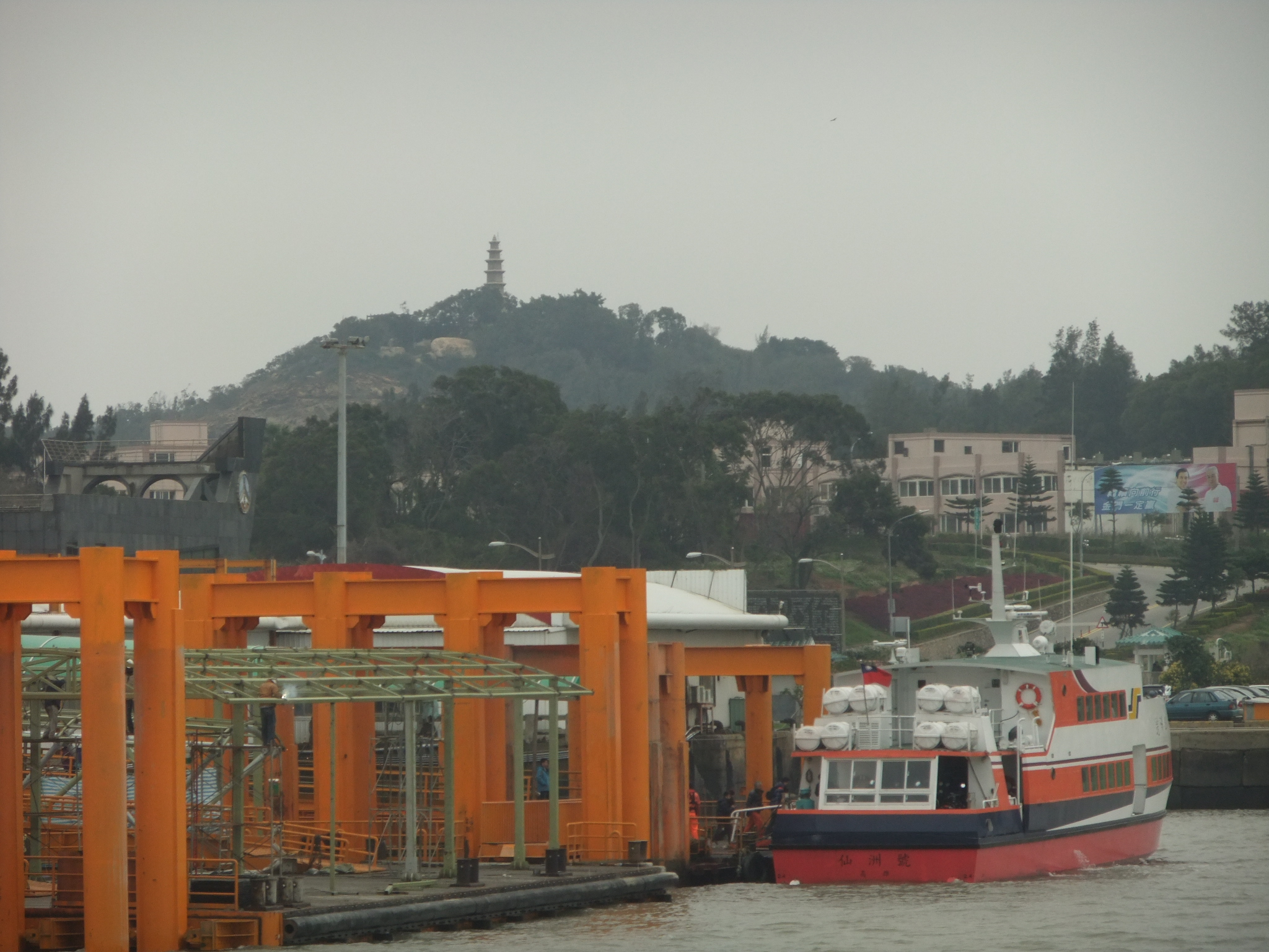 Shuitou Wharf is located near the southwestern extremity of Kinmen Island, R.O.C. It is Kinmen's only wharf for ferries connecting it with the Mainland China (Dongdu and Wutong Terminals in Xiamen, and Shijing Terminal near Quanzhou. Maoshan Hill, with Maoshan Pagoda, is seen in the background.